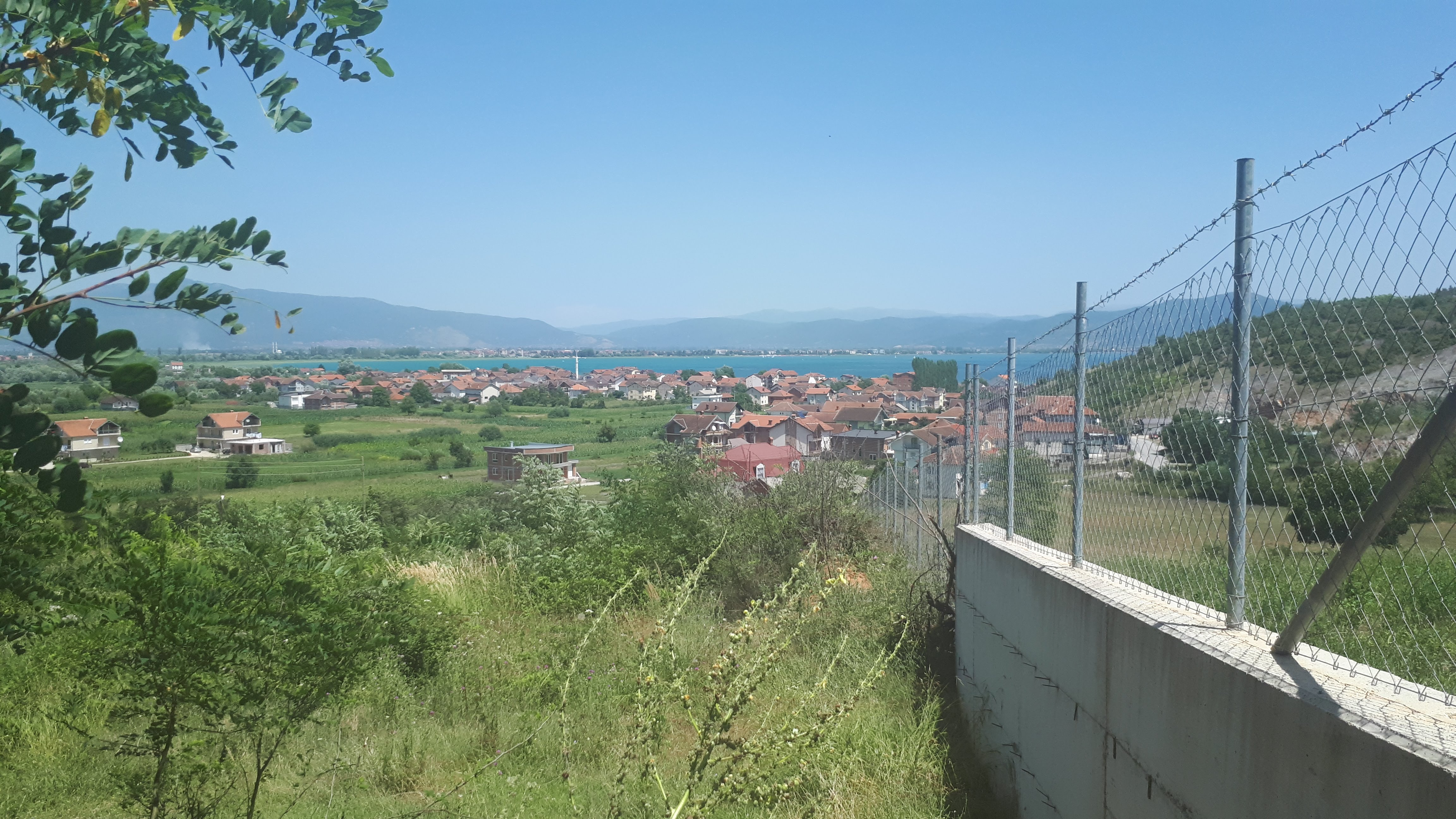 View of the village Kališta